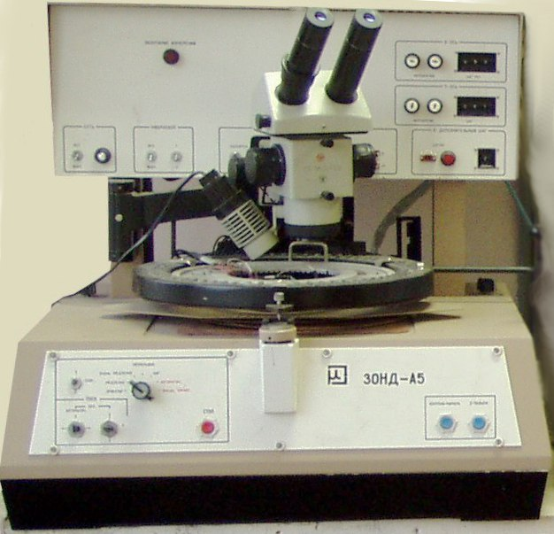 semiconductor wafer prober (made in USSR)